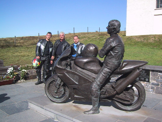 Joey Dunlop Monument. The Joey Dunlop "King Of The Mountain" Monument at the Bungalow on the Isle Of Man TT Course. This photo was taken during the 2003 Manx Grand Prix.